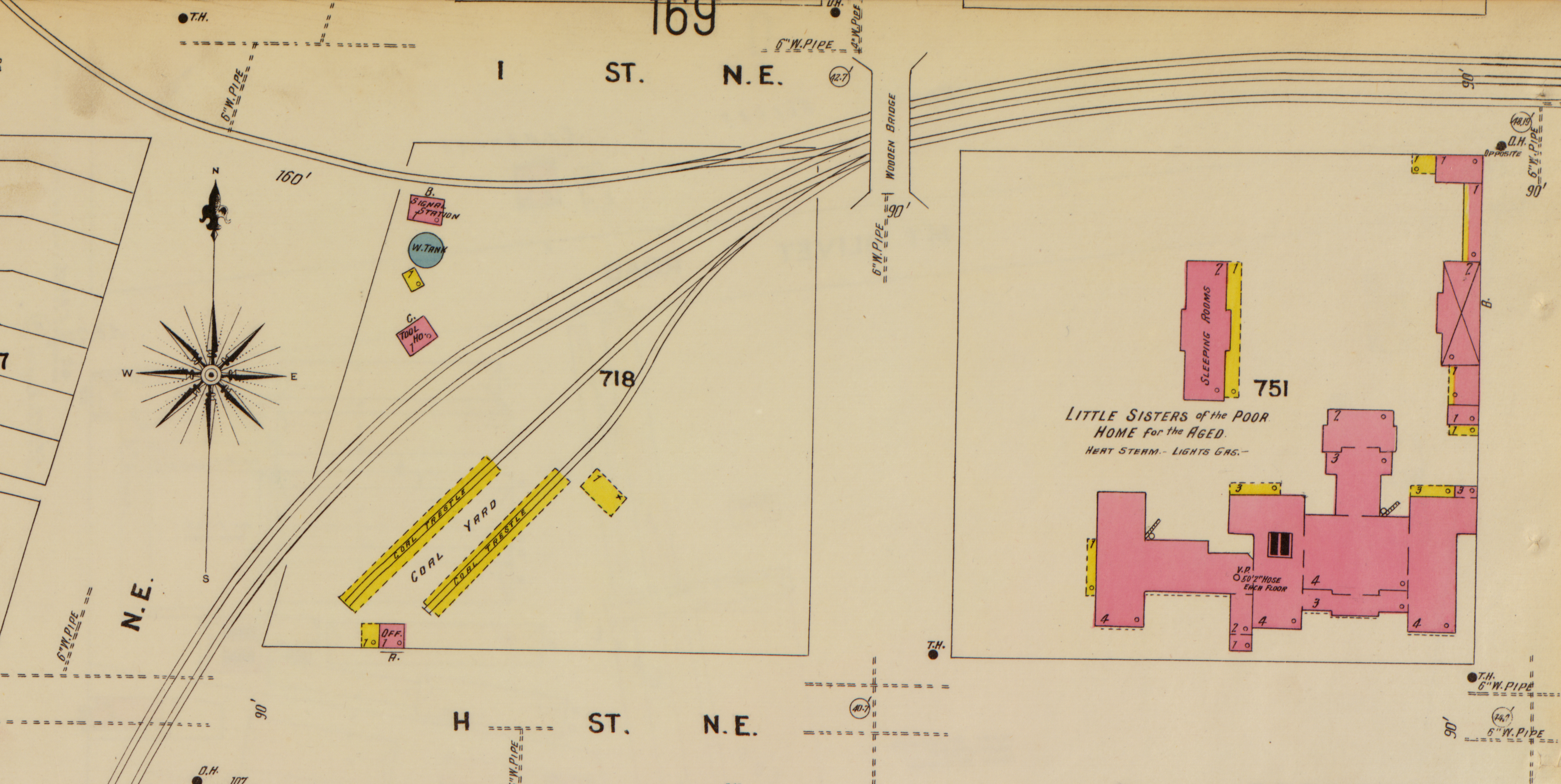 Detail from the Sanborn Fire Insurance Map from Washington, District of Columbia showing the Home in 1903 including the railway crossings.